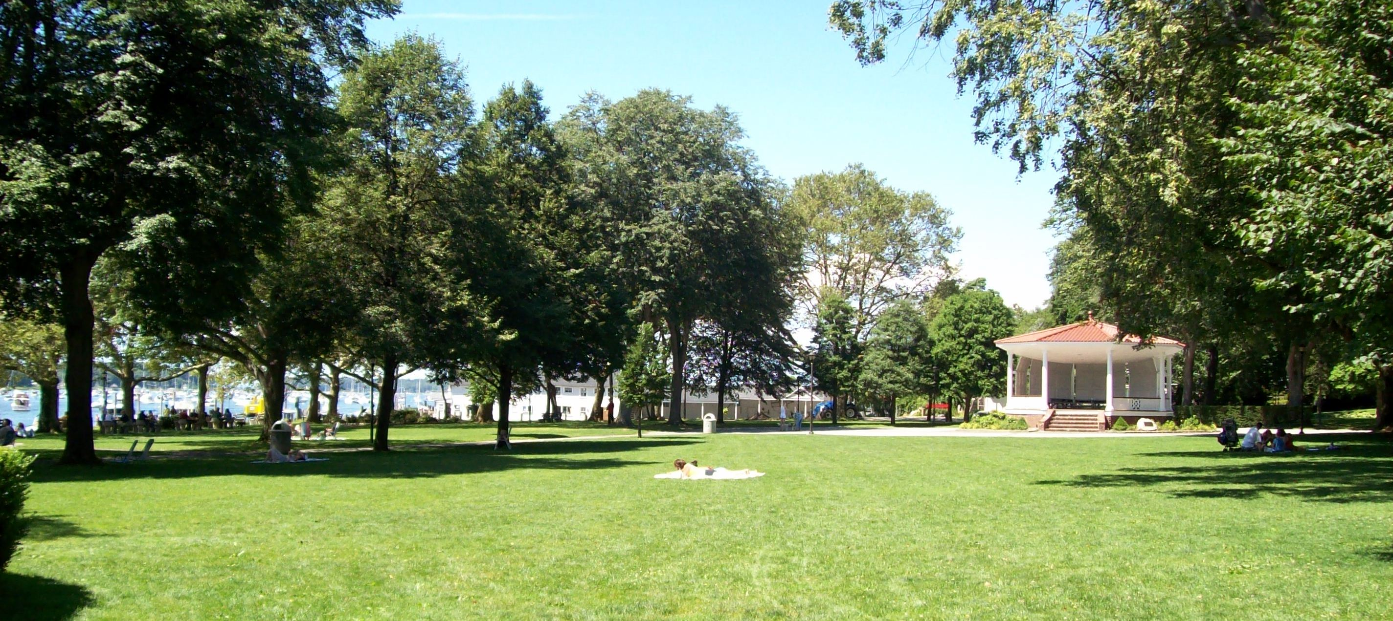 Northport Village Park (also known as Northport Memorial Park) in Northport, New York